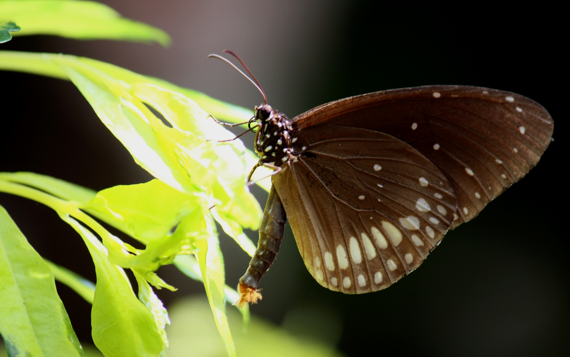 Butterfly of Southern India, Tamil Nadu & Sri Lanka